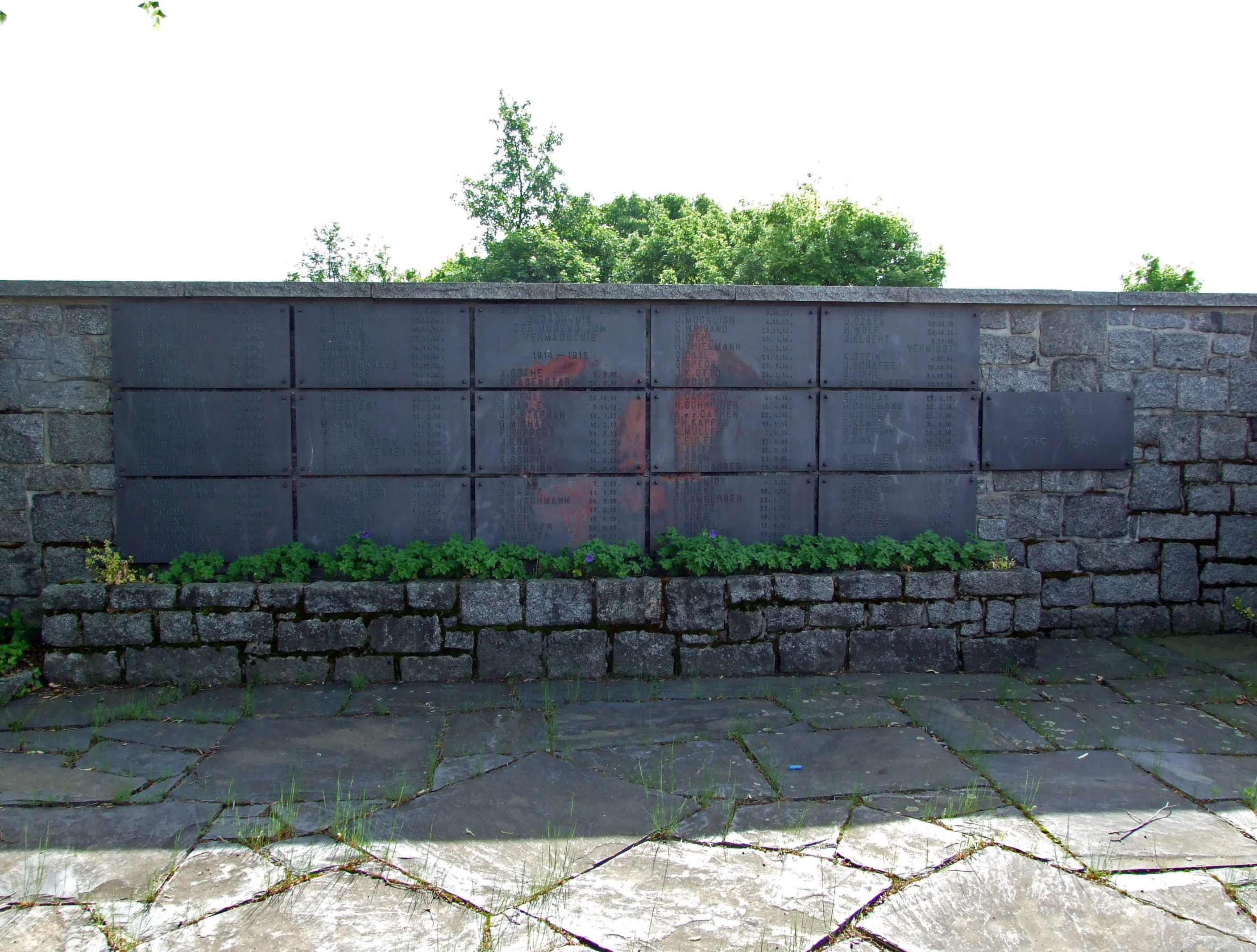 war memorial at "Lohrberg" in Frankfurt am Main-Seckbach, Germany, the plaque wall